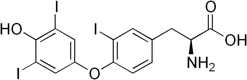 chemical structure of reverse triiodothyronine (rT3)